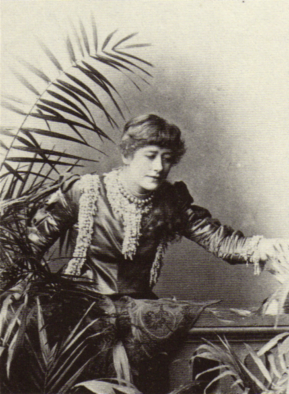 English actress Ellen Terry as Juliet in Shakespeare's Romeo and Juliet in 1882.